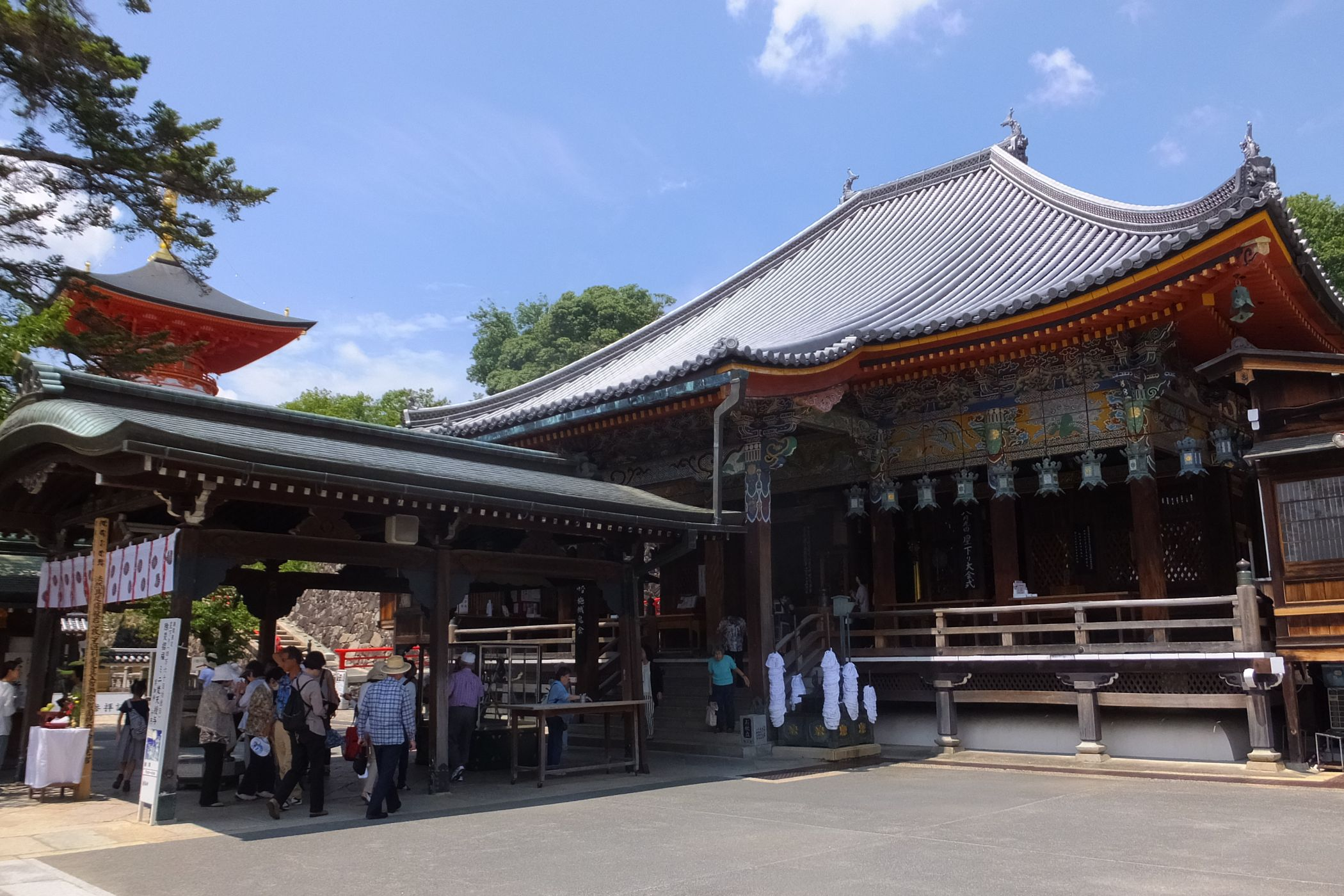 Main hall of Nakayama-dera temple in Takarazuka, Hyōgo prefecture